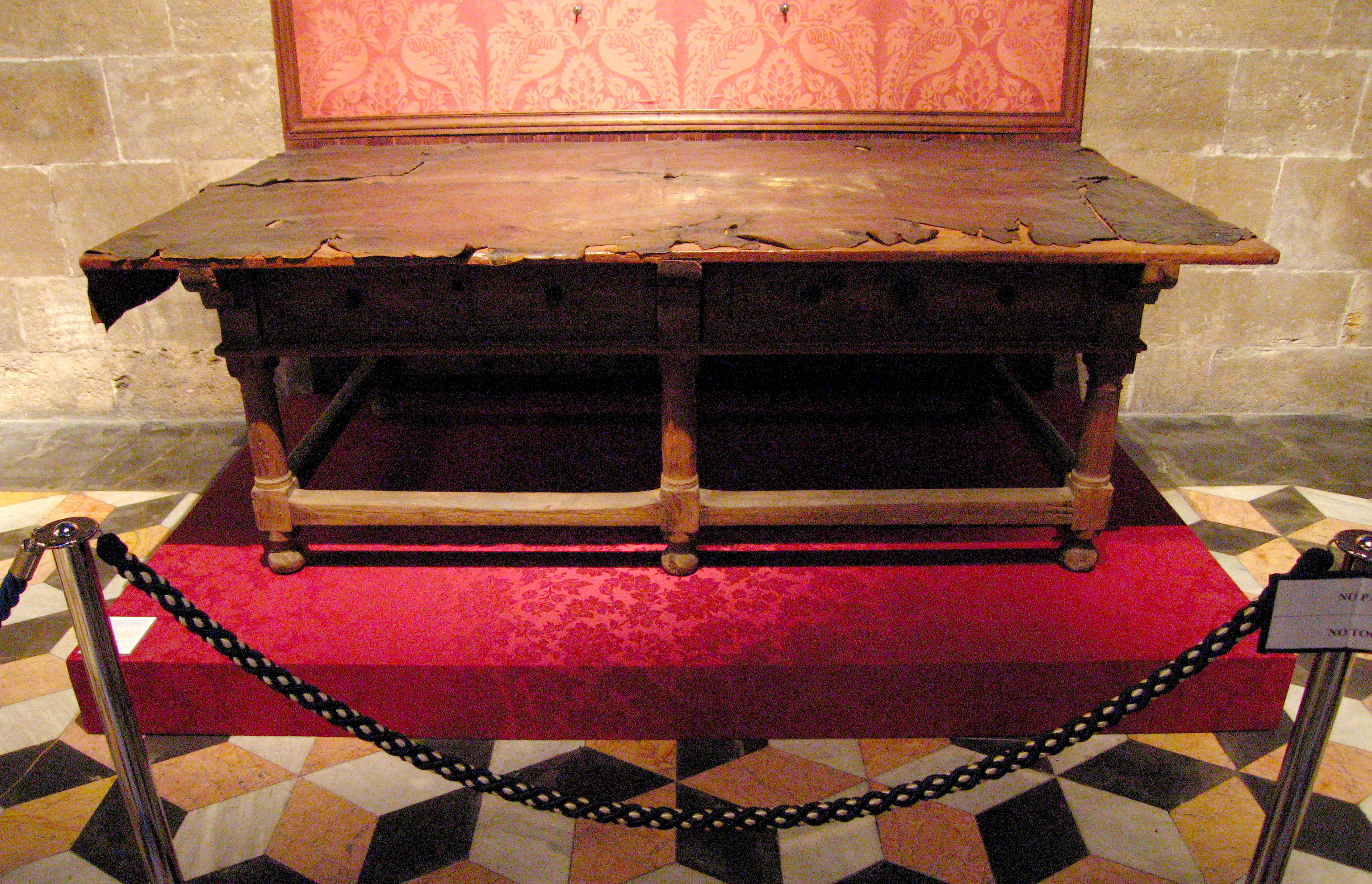 Image of the "Taula de Canvis" (Silk Exchange, Llotja de la Seda). Valencia, Spain.